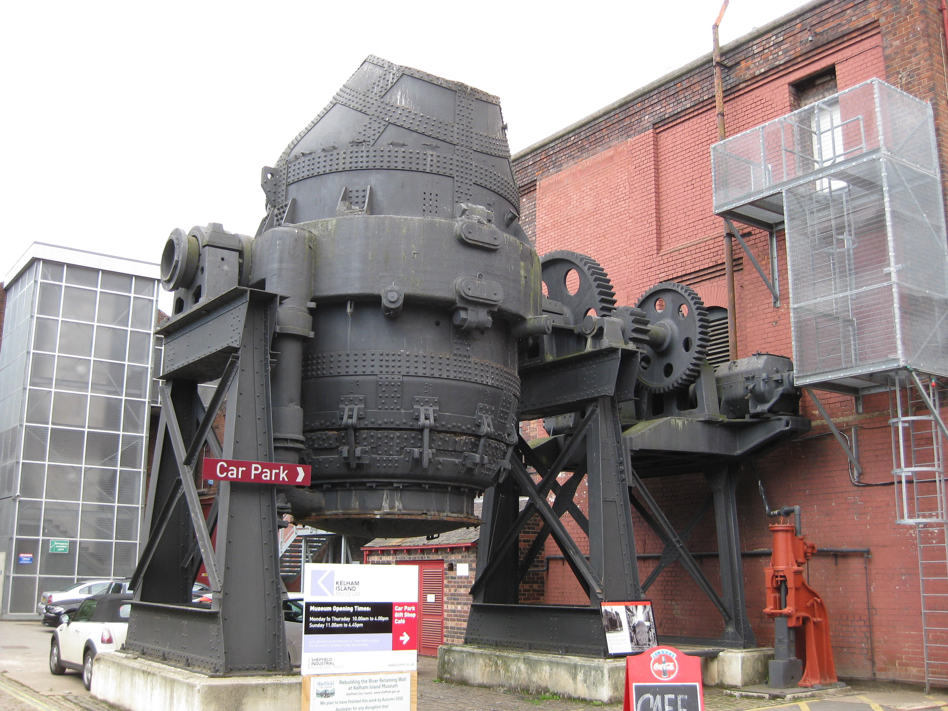 Bessemer Converter, outside entrance to Kelham Island Museum, Sheffield S3 8RY